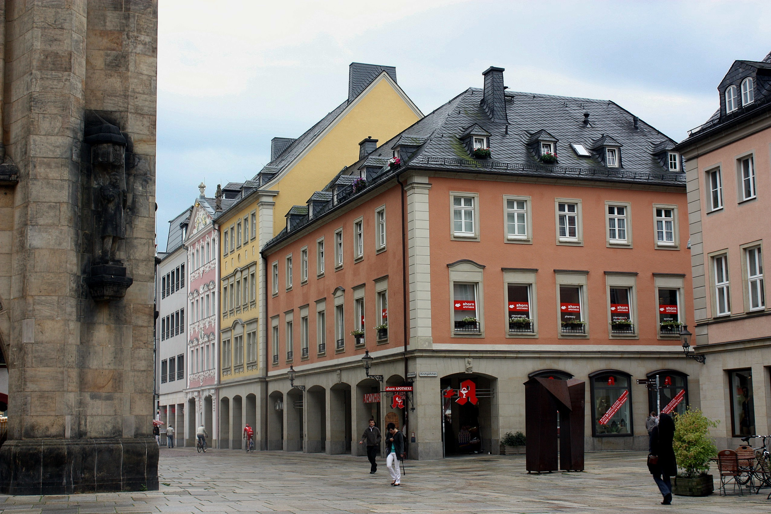 Chemnitz, view from the St. Jacob church through Innere Klosterstraße (towards the Market square)